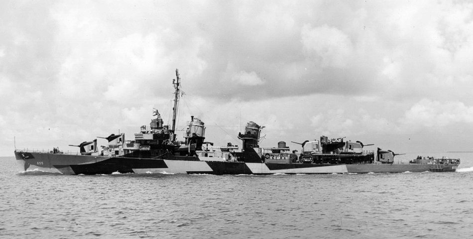 The U.S. Navy destroyer USS John Hood (DD-655) underway in Mobile Bay (USA), 12 June 1944. She had been commissioned on 7 June.